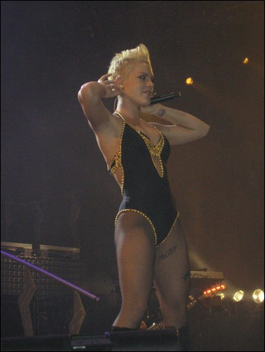 pink in belfast odysee 17th nov 2006